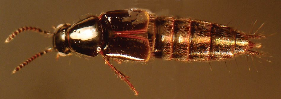 Dorsal habitus photograph of Quedius cinctus.